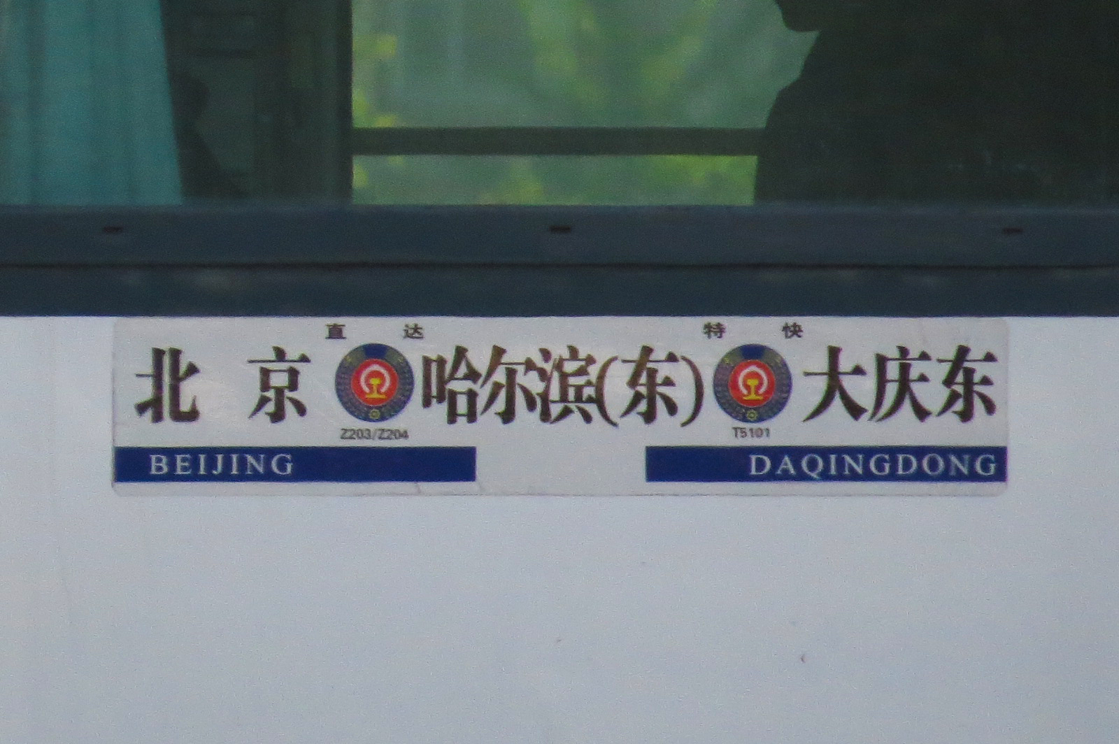 First Z on the Harbin-Manzhouli Railway.